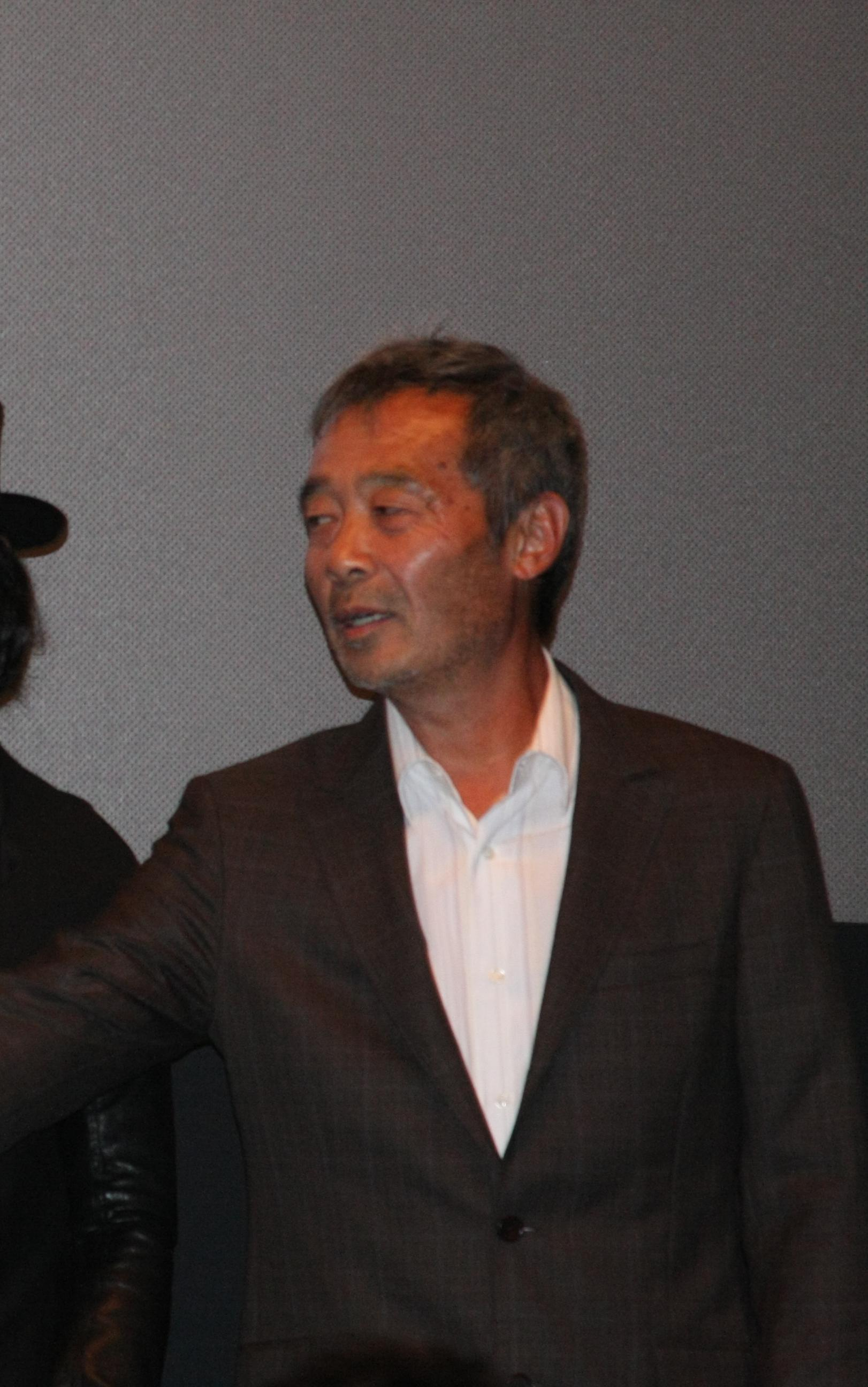 At the introduction to The Warrior and the Wolf, director Tian Zhuang-zhuang